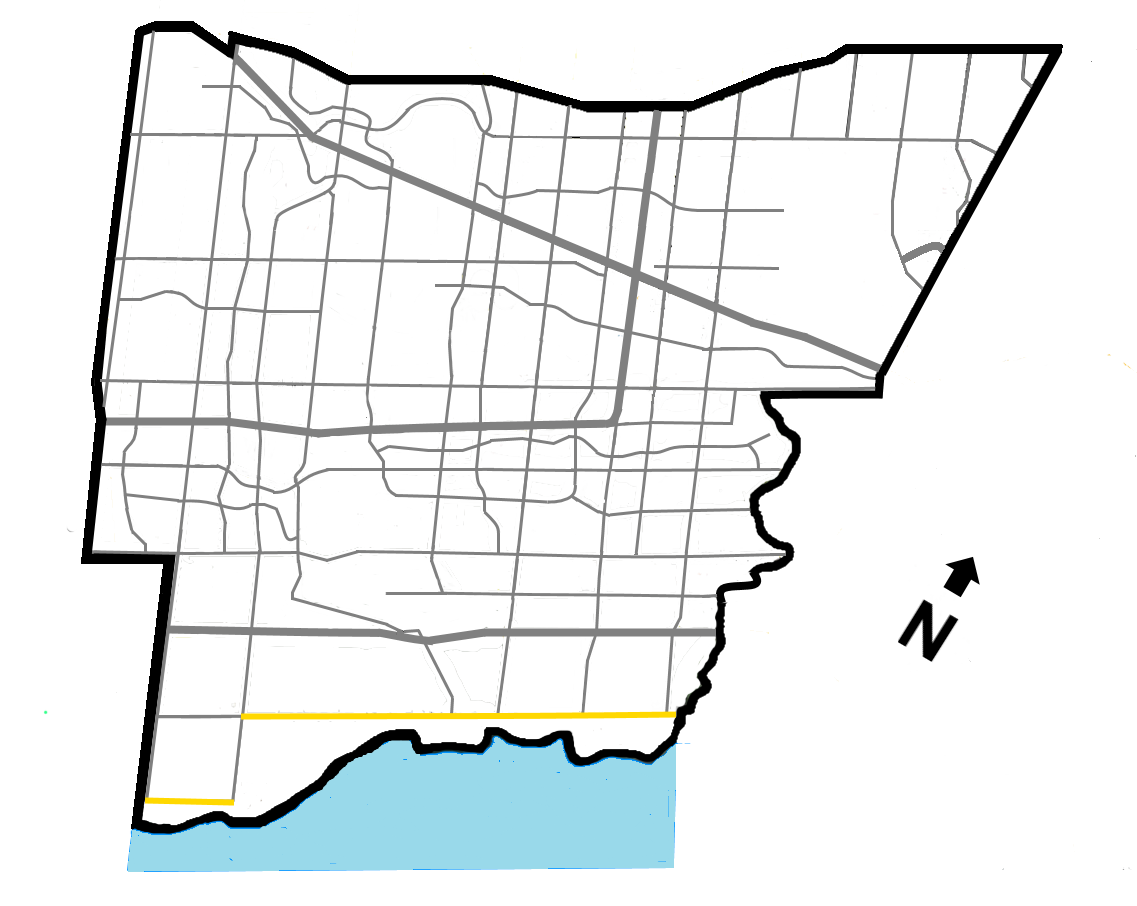 Lakeshore Rd. in Mississauga